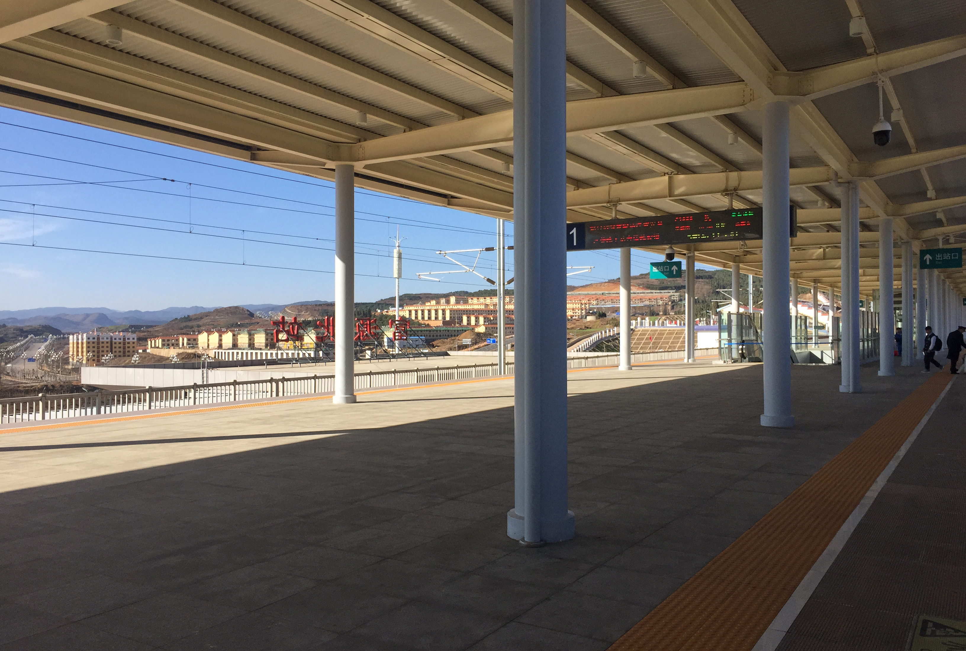 This station has only one platform, like Mishima Station.